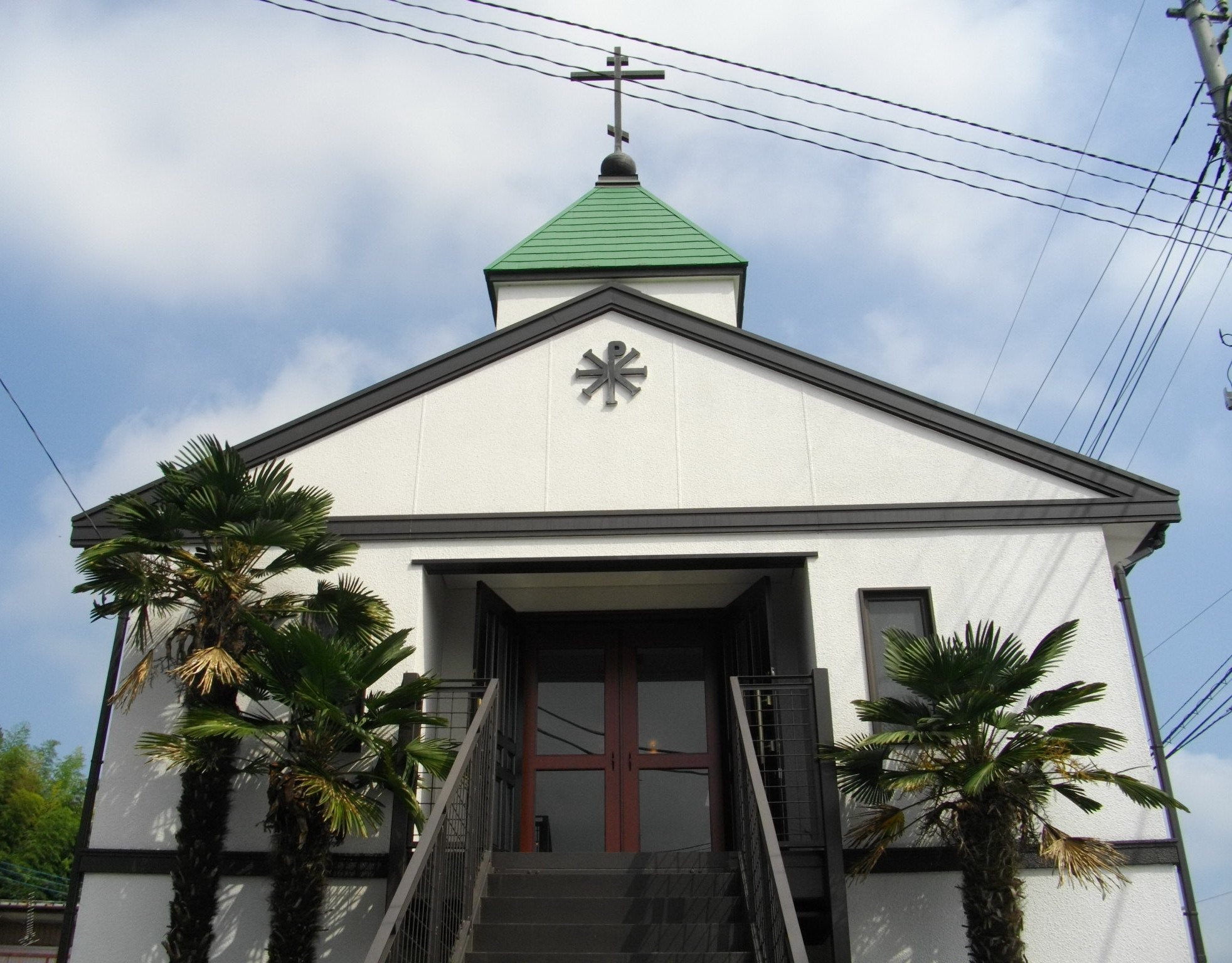 Exterior of the Orthodox Church in Kanuma, Tochigi, belonging to the Autonomous Orthodox Church in Japan.